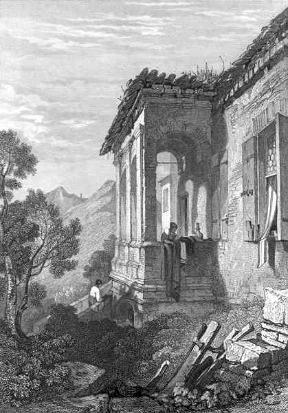 Petrarch's house at Arquà. Engraving from: Thomas Roscoe, The tourist in Switzerland and Italy.